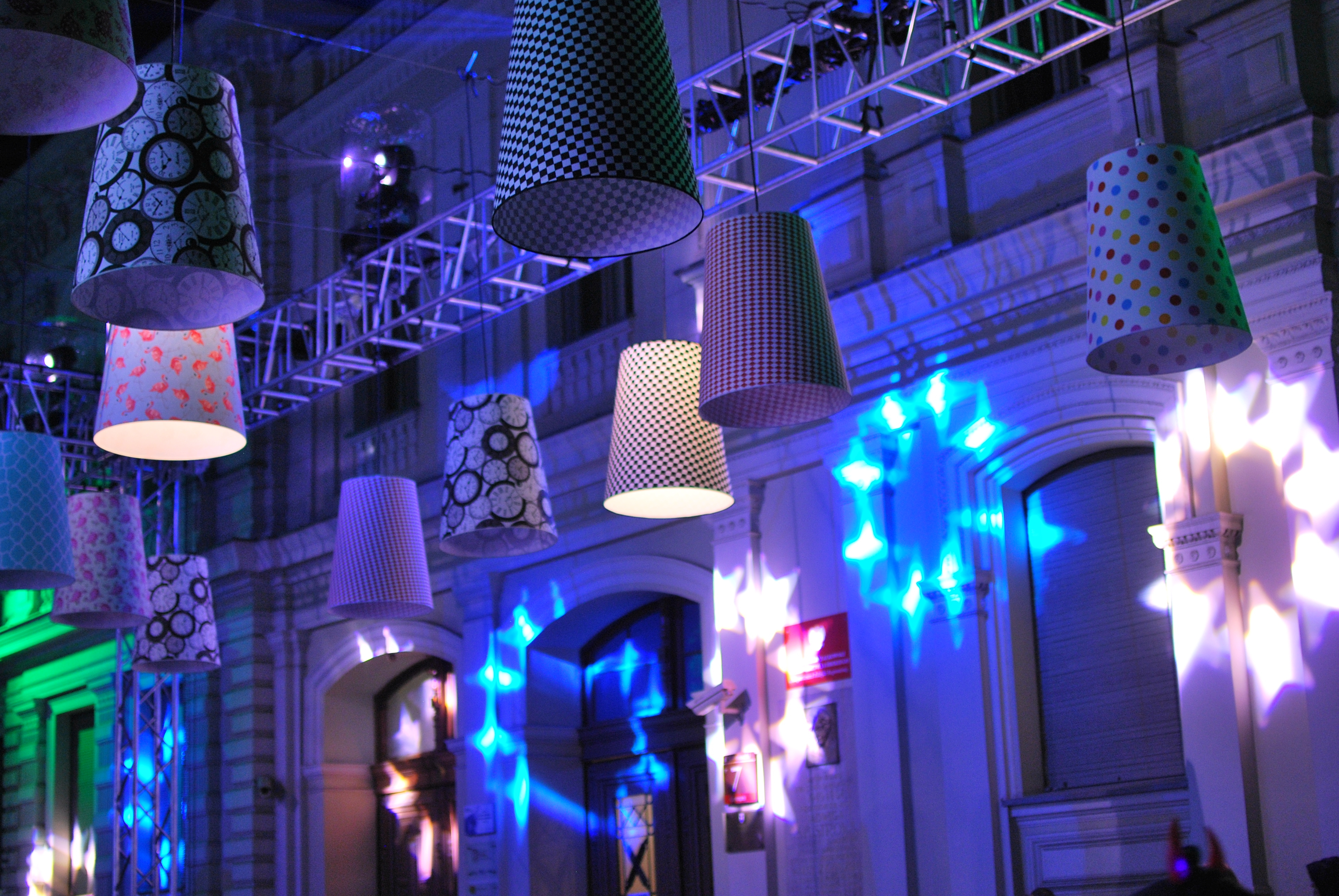 Light Move Festival in Łódź 2015